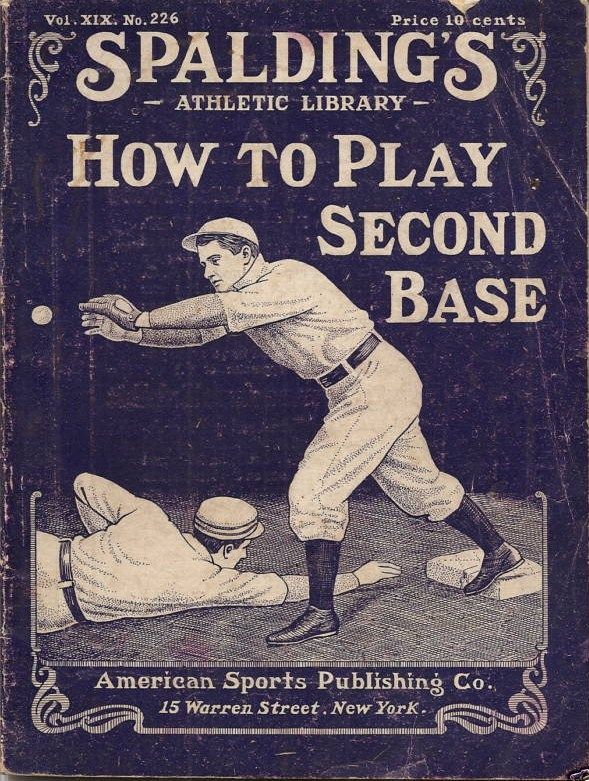 Cover of a booklet titled "How to Play Second Base", part of "Spaulding's Athletic Library" series, published by the American Sports Publishing Company